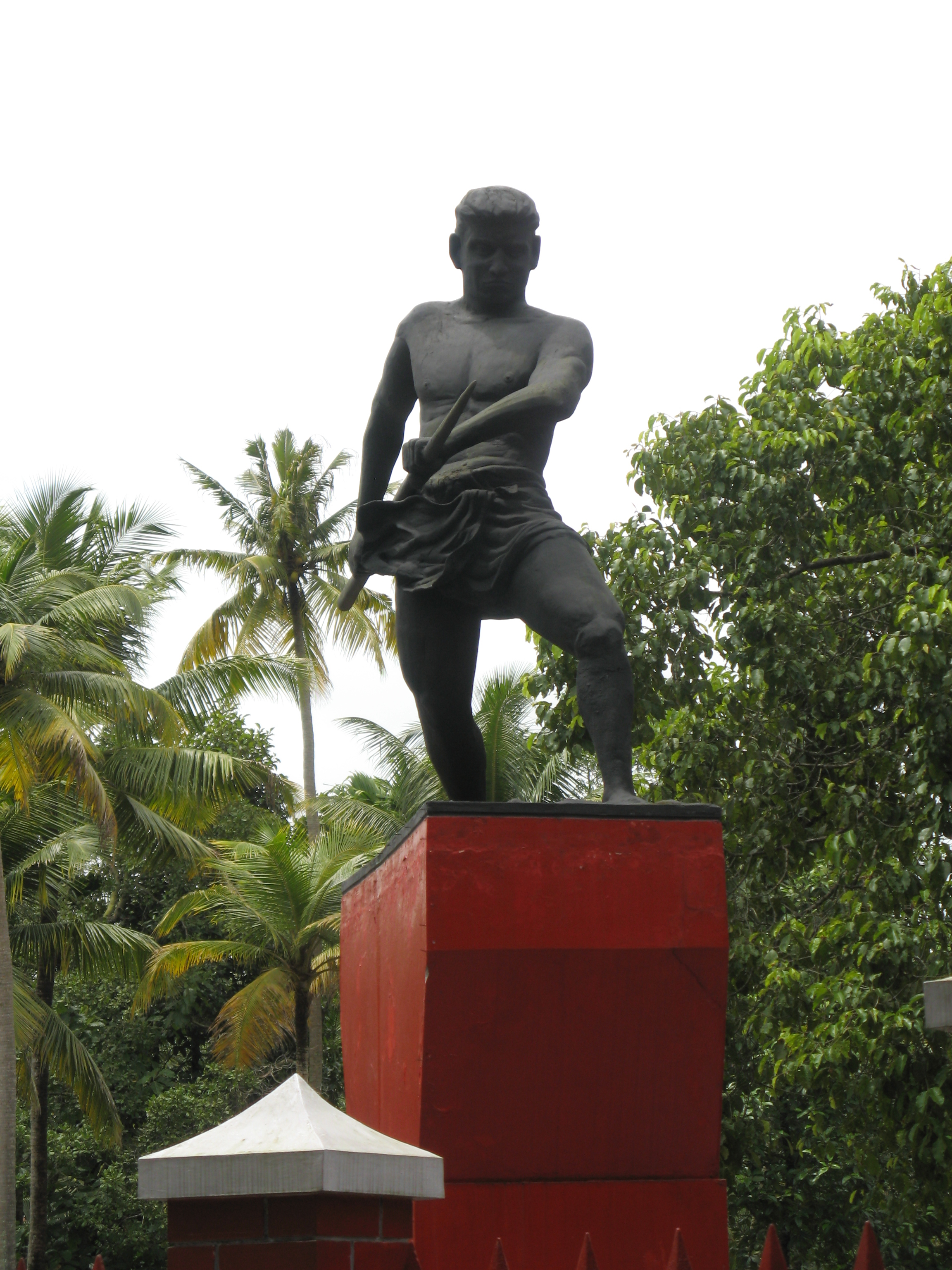 The memorial to the martyrs of struggle against the Divan of Travancore state in India.